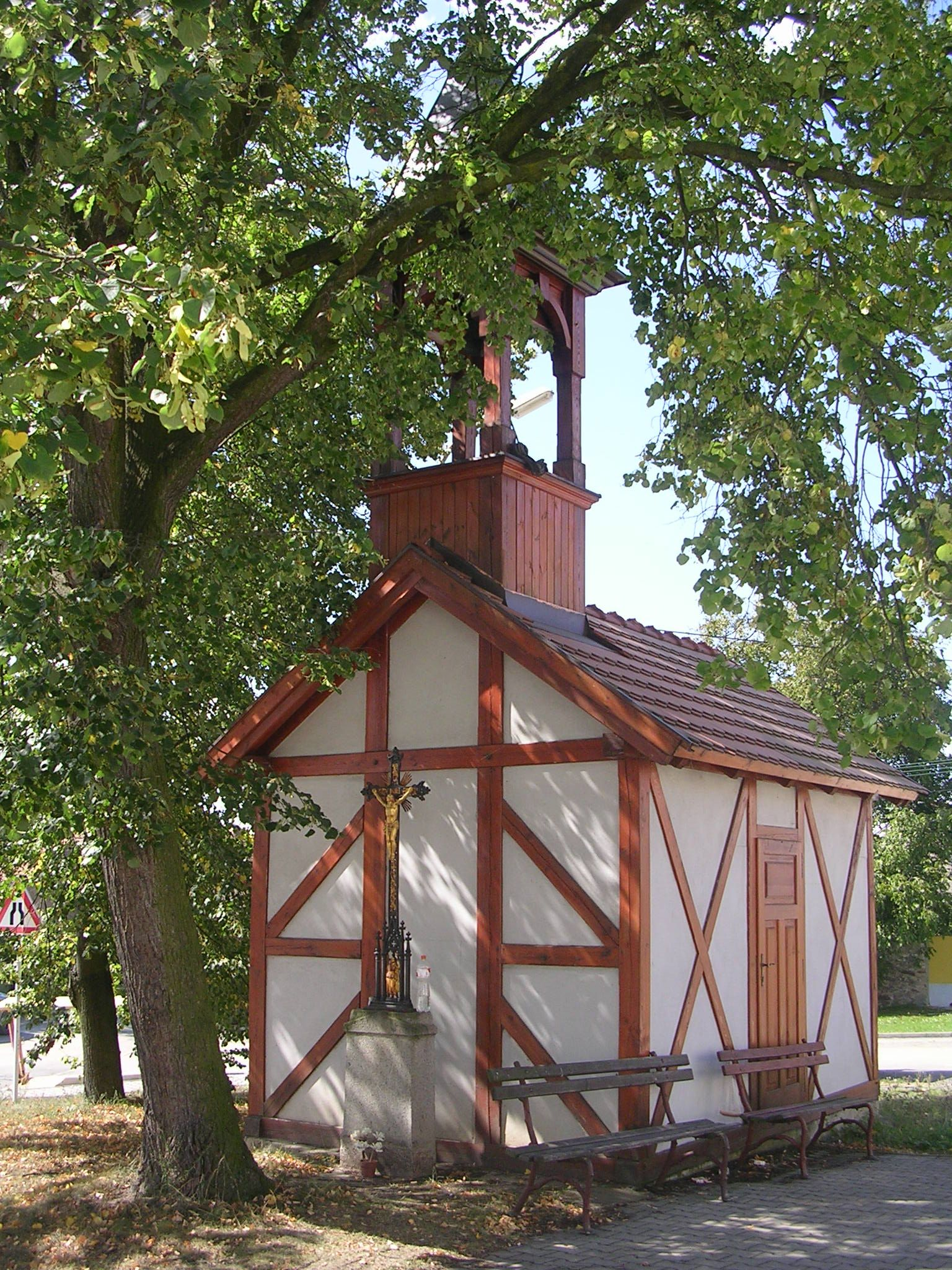 Kublov, Beroun District, Central Bohemian Region, the Czech Republic. A bell tower.